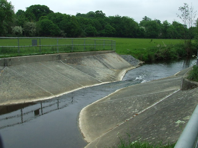 Weir Weir on the River Box near to Mill Street Suffolk.